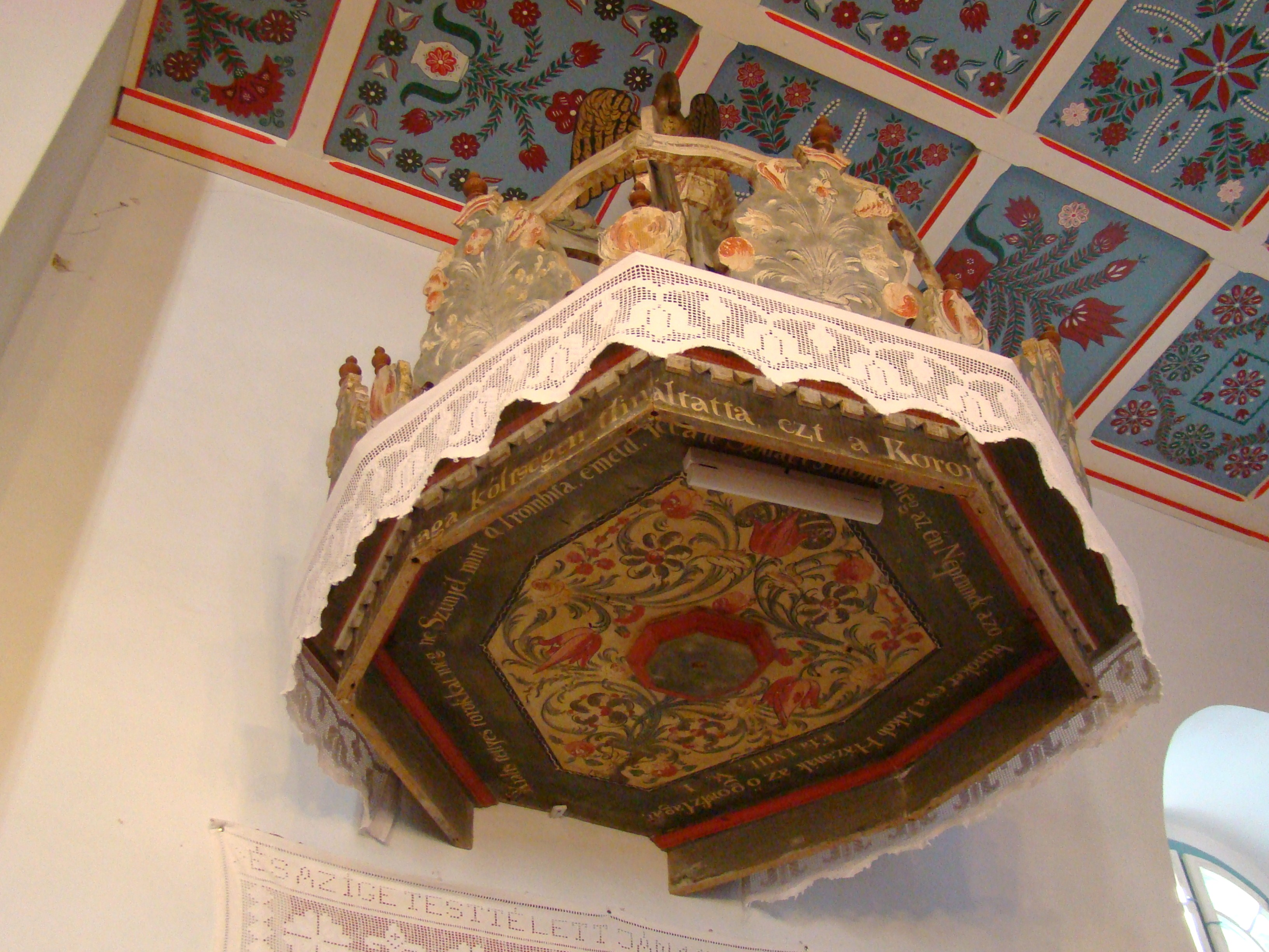 Protestant church in Inucu, Cluj county, Romania